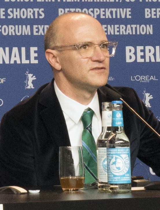 Press conference of Damsel at Berlinale 2018. Robert Pattinson, Nathan Zellner, David Zellner, Mia Wasikowska